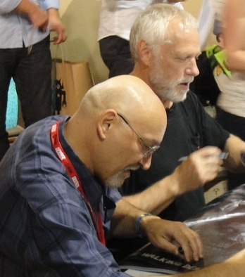 Frank Darabont and Drew Struzan signing a Limited Edition poster of 2010 horror series Walking Dead.